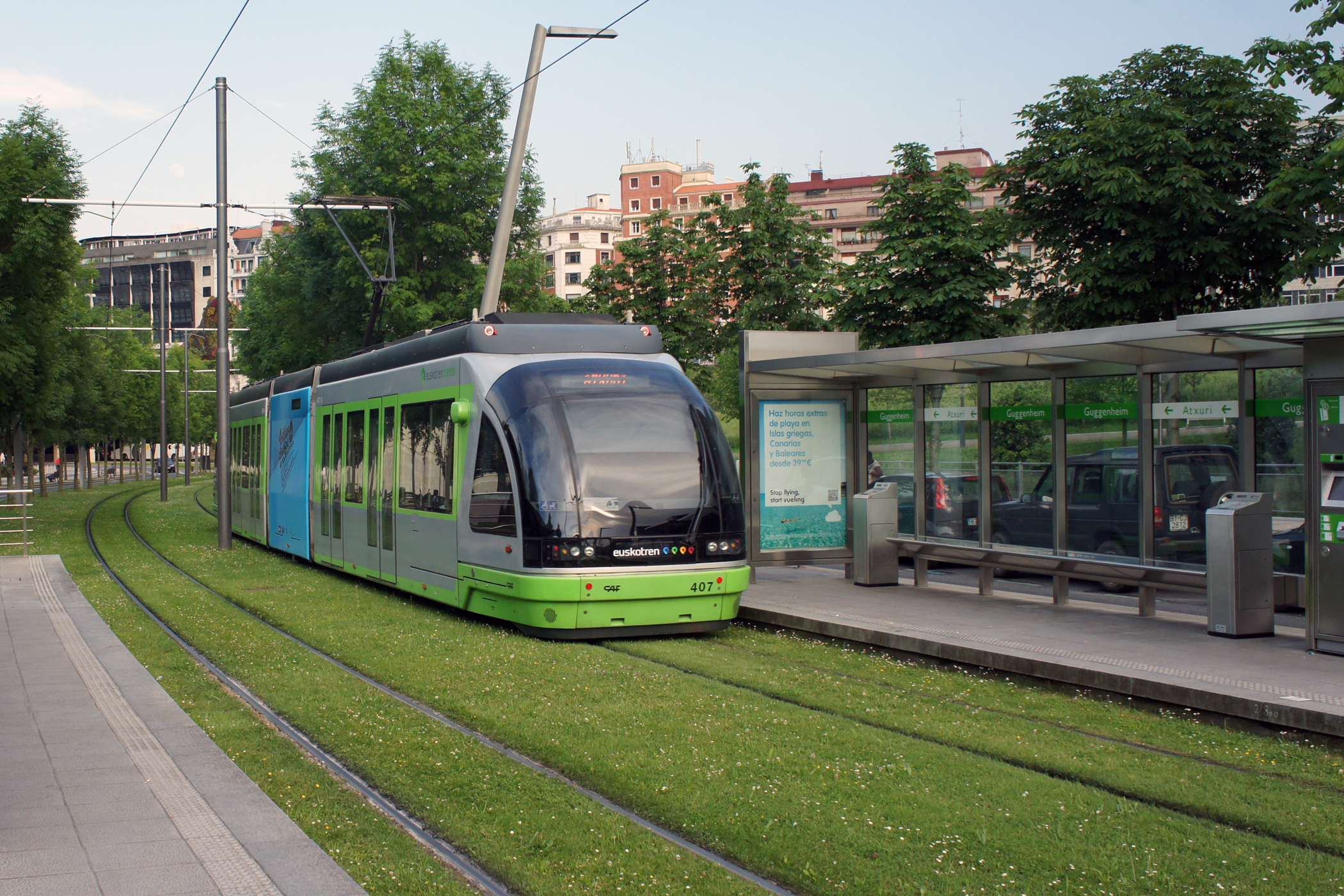 Bilbao EuskoTran at Guggenheim station